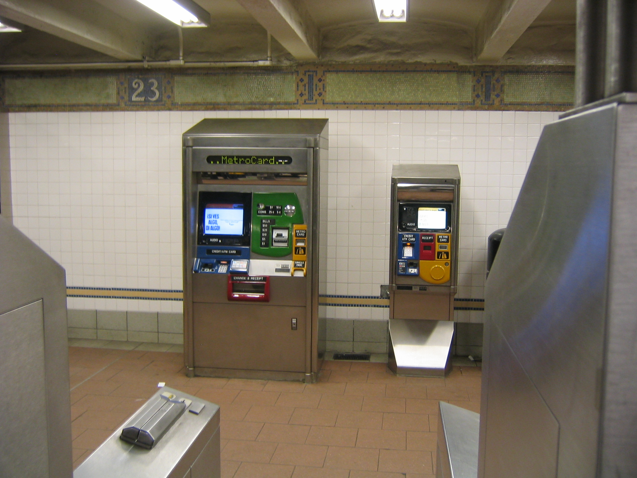 MetroCard Vending Machines (MVMs) like they are located in all New York City Subway stations.The MVMs were first introduced in January 1999 and are now found in two models. Standard MVMs as seen on the left are large boxes that accept cash, credit cards, and ATM or debit cards. The smaller version on the right only accept credit and ATM/debit cards. However, both machines allow a customer to purchase every type of MetroCard and can also add fares to previously issued MetroCards.The machines are operated through a touch screen. Moreover they are compliant with the Americans with Disabilities Act of 1990 through use of braille and a headset jack, which is programmed through the keypad.